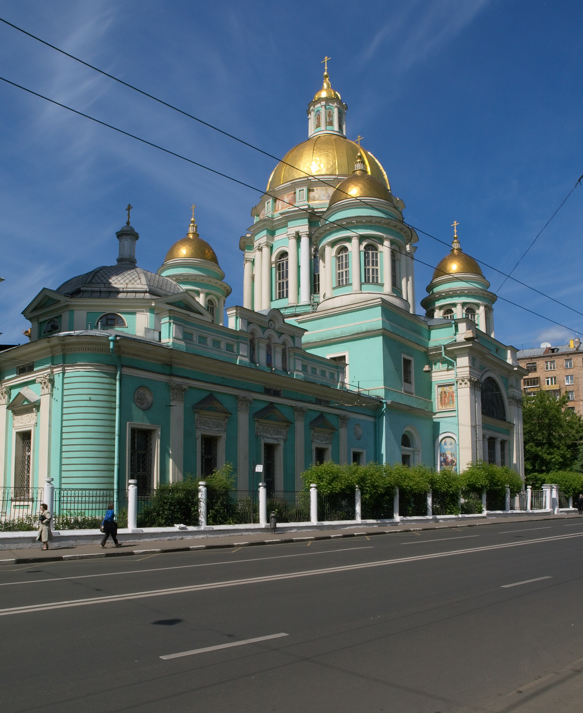 Epiphany Cathedral, Moscow